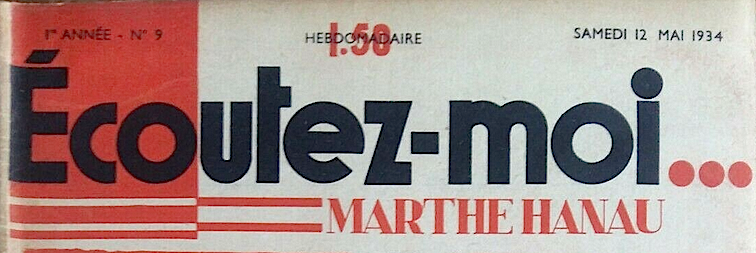 Title page [extract] from Ecoutez-moi... Marthe Hanau, weekly periodical published in Paris